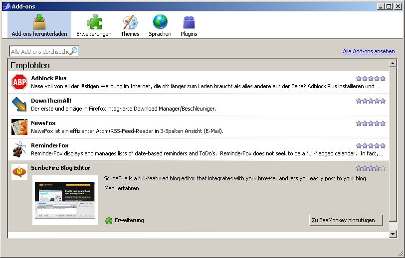 SeaMonkey 2.0 Alpha, new add-on manager